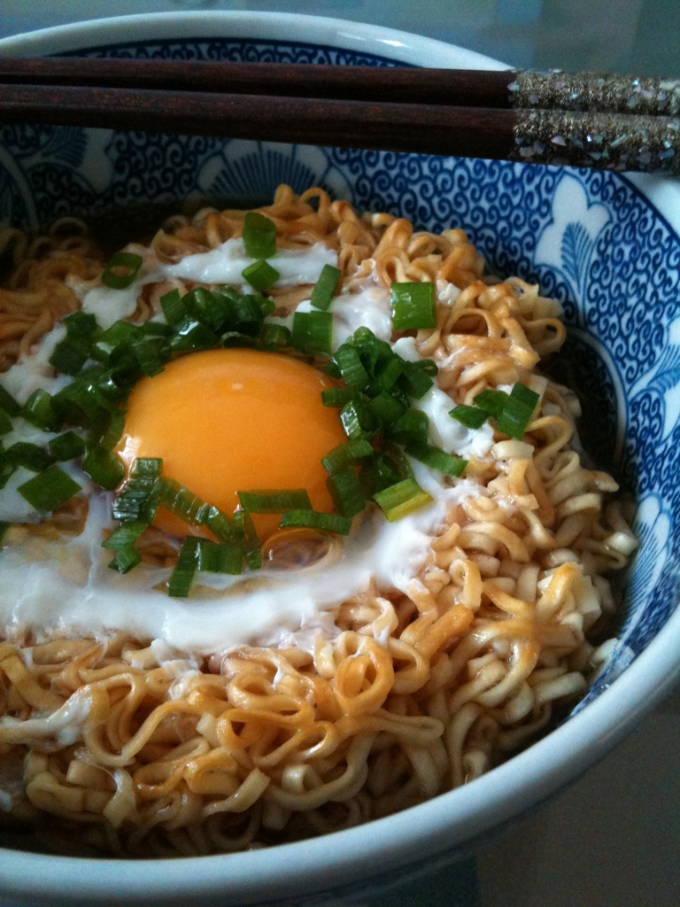 Cooked Nissin Chicken Ramen by ume-y